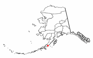 Adapted from Wikipedia's AK borough maps by Seth Ilys.